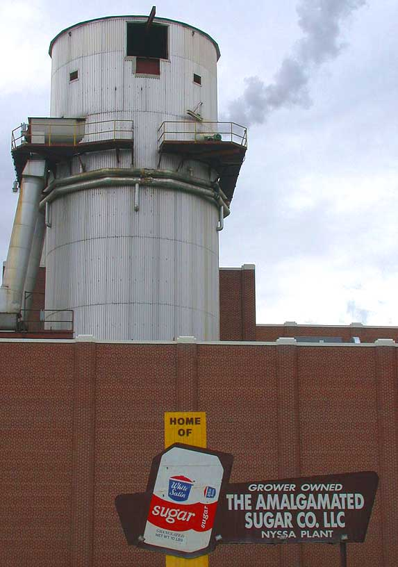 diffusion tower in Nyssa sugar factory; Amalgamated Sugar Co. plant in Nyssa, Oregon